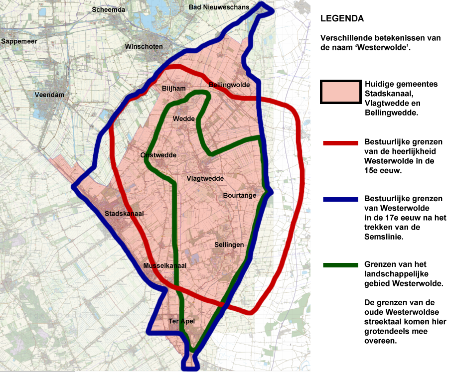 Different definitions of the geographical name Westerwolde